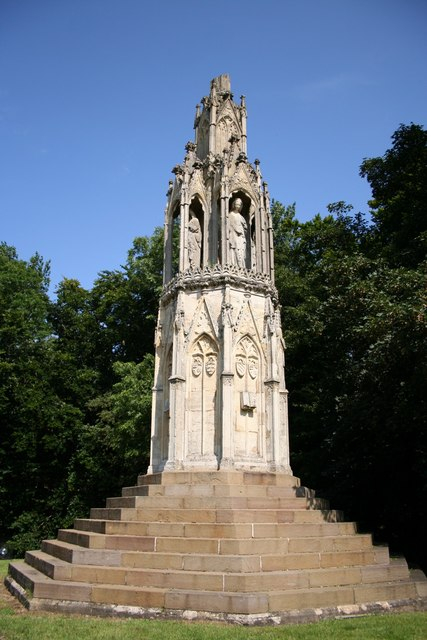 Hardingstone Eleanor Cross. Following her death in Harby on 28th November 1290, Queen Eleanor’s funeral cortège stopped overnight at the nearby Delapre Abbey en-route to Westminster Abbey. King Edward I erected a memorial cross at each of the 12 overnight stops, only three survive, at Geddington, waltham and here at Hardingstone. The cross is much repaired and lost its top as early as 1460 but is still a marvellous example of late 13th century work. Of octagonal plan, it has the unique feature of an open book carved on four alternating sides of the lower tier.